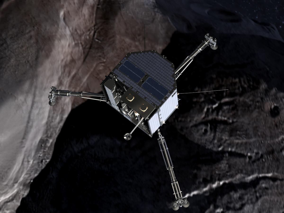 Philae lander closing to the surface of a comet. Frame from the movie "Chasing A Comet – The Rosetta Mission".